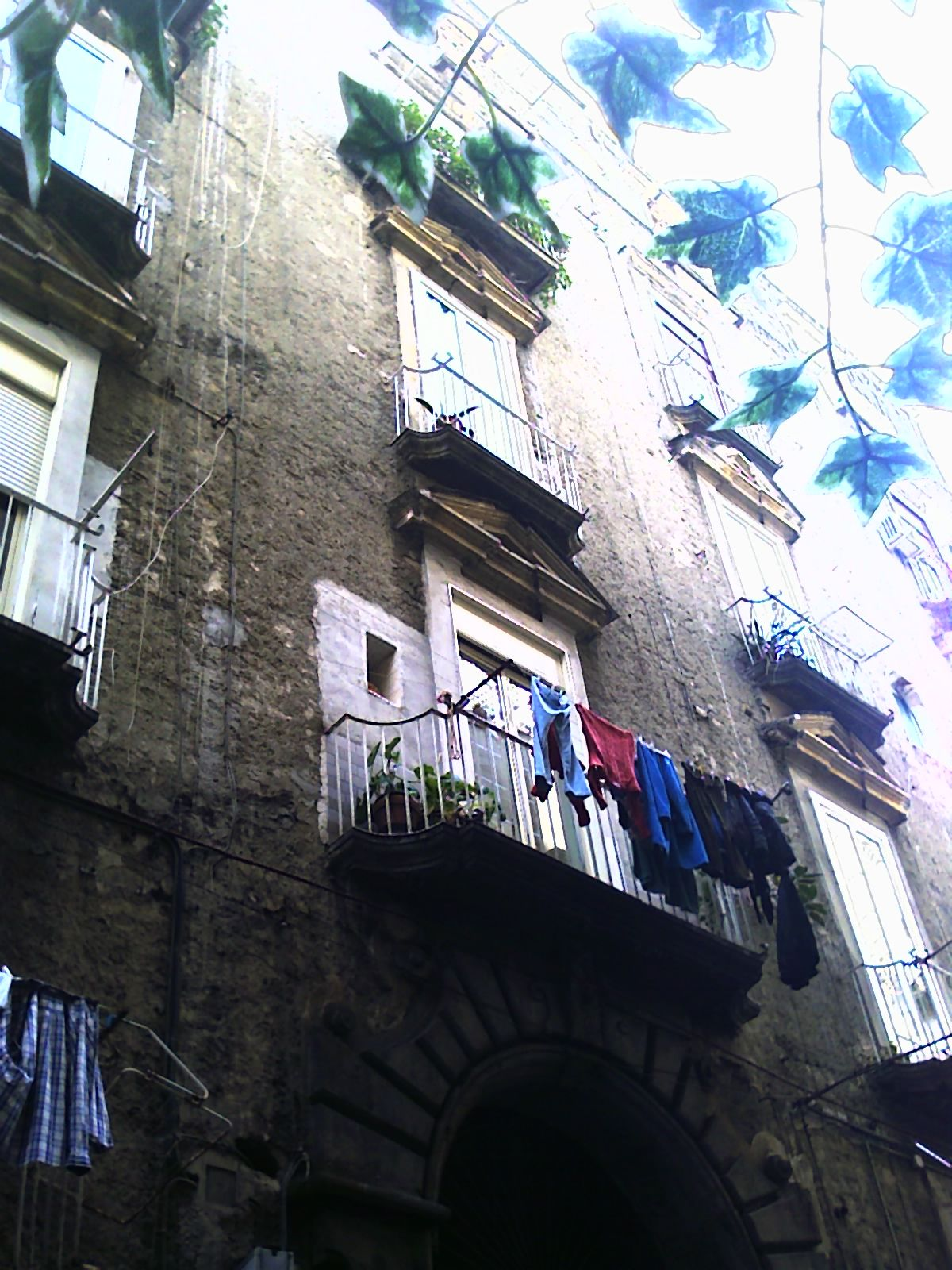 Facade